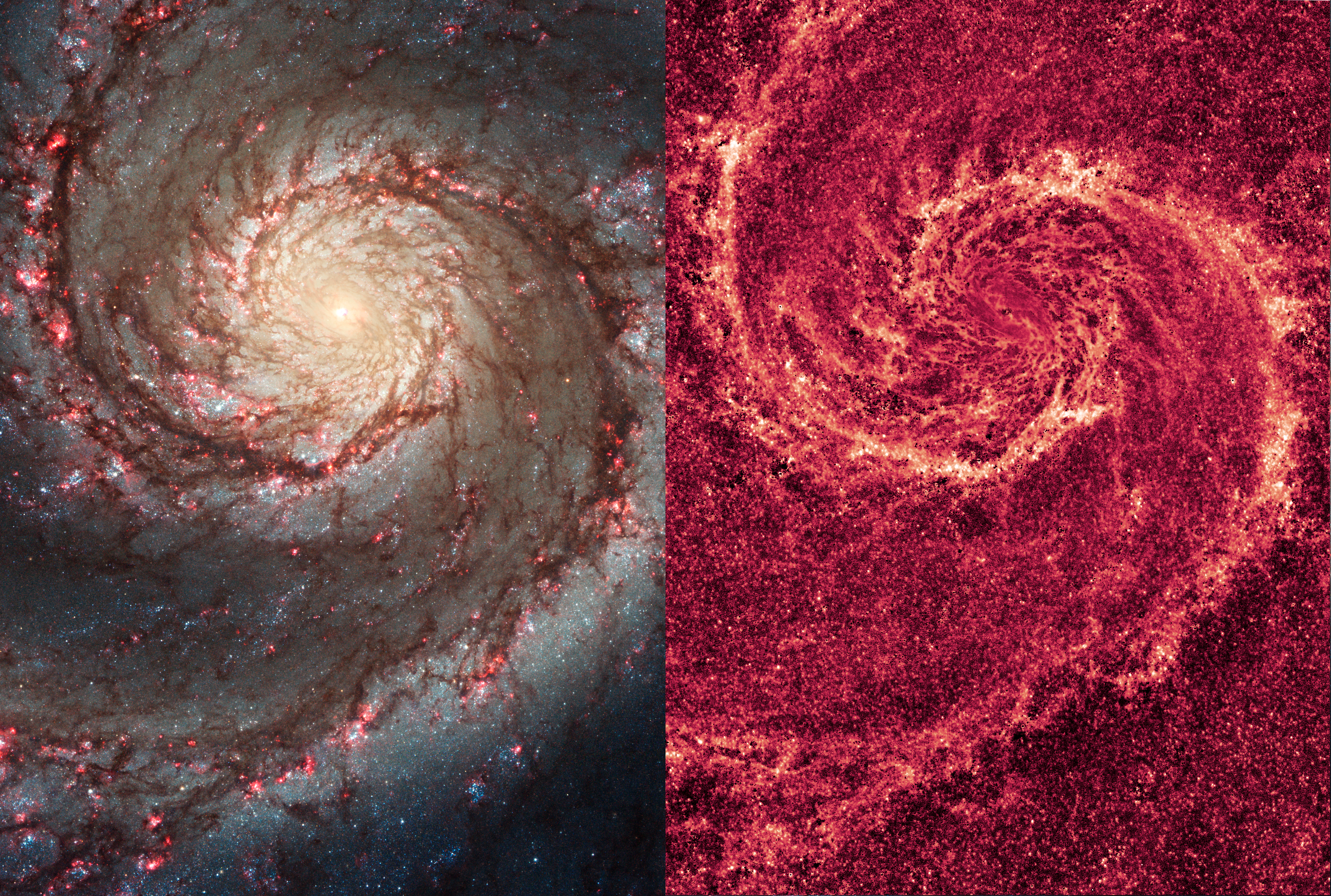 These images by NASA's Hubble Space Telescope show off two dramatically different face-on views of the spiral galaxy M51, dubbed the Whirlpool Galaxy. The image at left, taken in visible light, highlights the attributes of a typical spiral galaxy, including graceful, curving arms, pink star-forming regions, and brilliant blue strands of star clusters. In the image at right, most of the starlight has been removed, revealing the Whirlpool's skeletal dust structure, as seen in near-infrared light. This new image is the sharpest view of the dense dust in M51. The narrow lanes of dust revealed by Hubble reflect the galaxy's moniker, the Whirlpool Galaxy, as if they were swirling toward the galaxy's core. To map the galaxy's dust structure, researchers collected the galaxy's starlight by combining images taken in visible and near-infrared light. The visible-light image captured only some of the light; the rest was obscured by dust. The near-infrared view, however, revealed more starlight because near-infrared light penetrates dust. The researchers then subtracted the total amount of starlight from both images to see the galaxy's dust structure. The red colour in the near-infrared image traces the dust, which is punctuated by hundreds of tiny clumps of stars, each about 65 light-years wide. These stars have never been seen before. The star clusters cannot be seen in visible light because dense dust enshrouds them. The image reveals details as small as 35 light-years across.